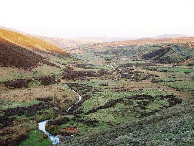 Whiteadder Water. The headwaters of the Whiteadder, last of the big Tweed tributaries. Almost makes it to Berwick before meeting the big river.